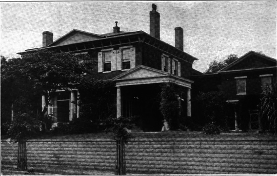 Mary Simmerson Cunningham Logan's home